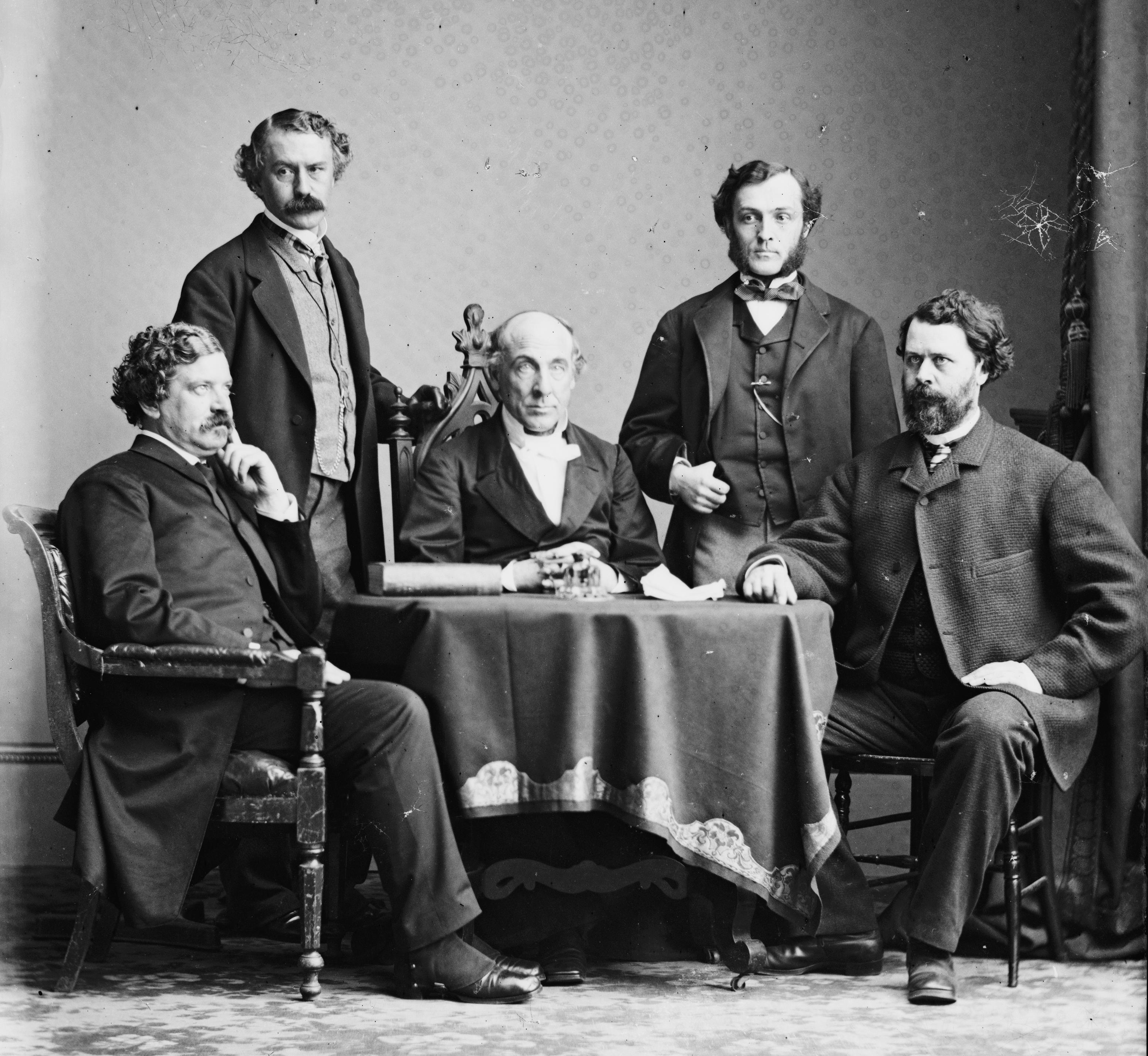 New York City Police Commissioners. Library of Congress description: "New York Police".